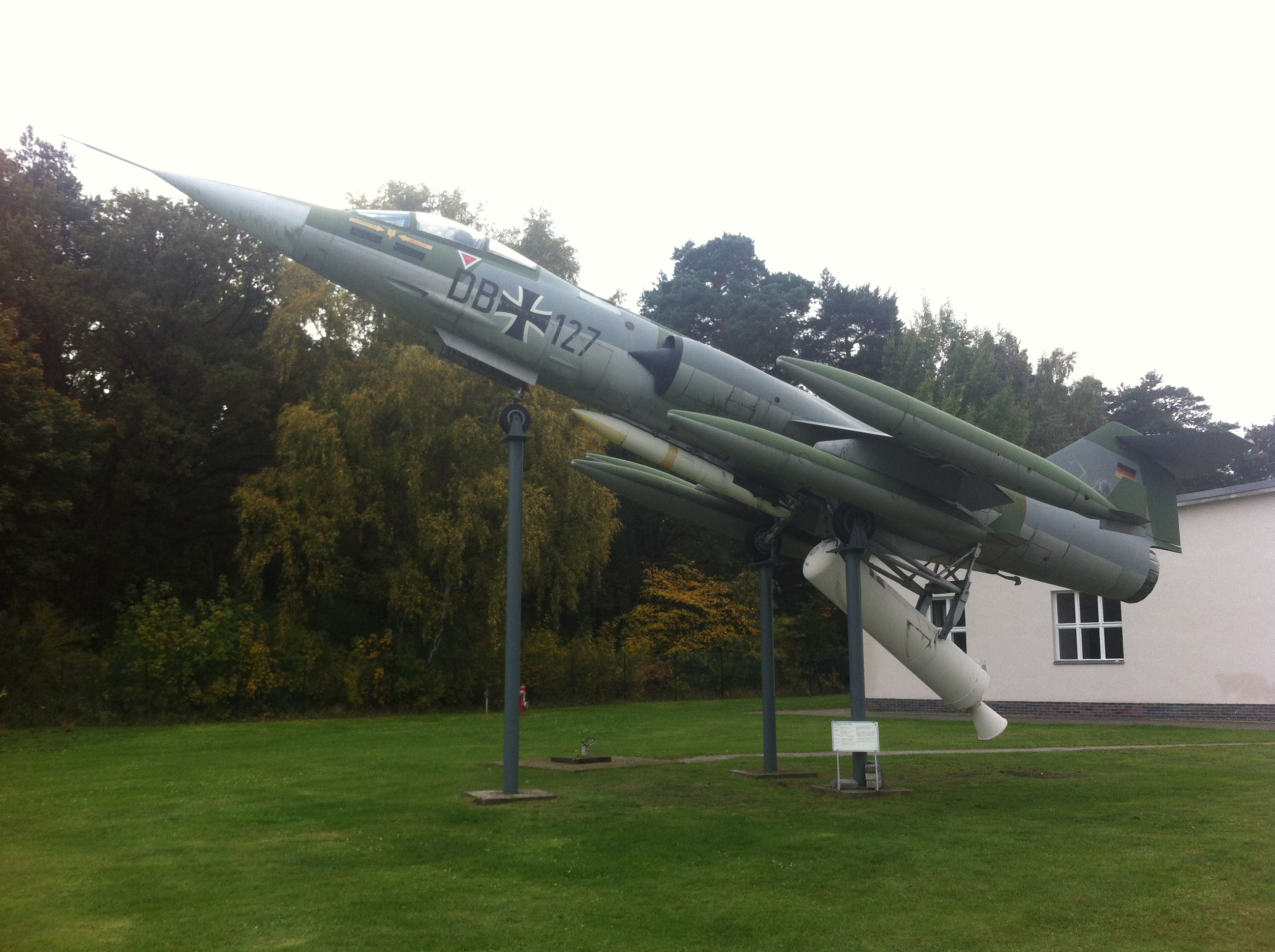 F-104G with a ZELL-Verfaren rocket booster and a B-43 nuclear bomb